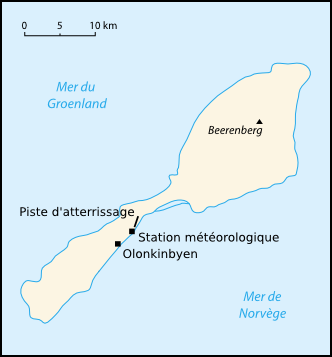 Jan Mayen map, Norway